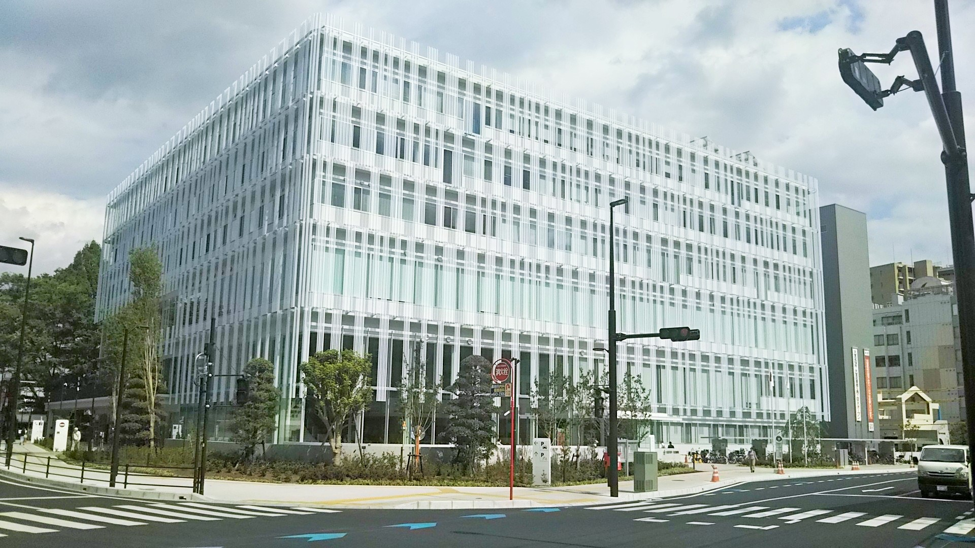 Omiya ward office and library in Saitama, Japan. Opened on May 7, 2019.